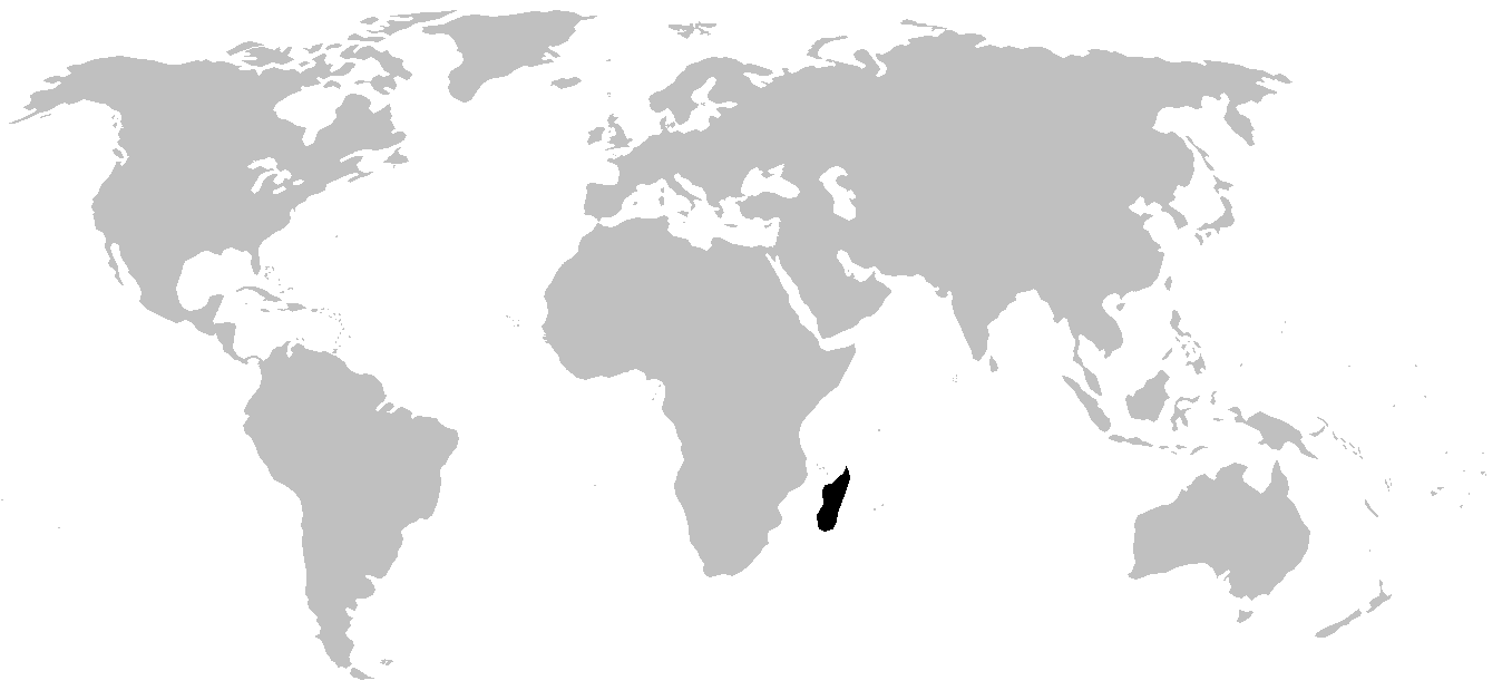 Distribution of Mantellidae.